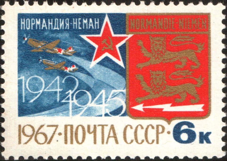 Stamp of USSRː Planes and Emblem. Issueː French Normandy-Neman aviators, who fought on the Russian Front, 25th anniv.